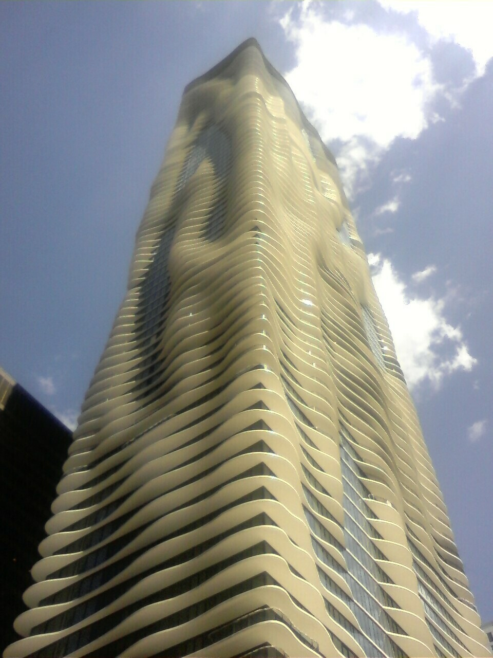 Aqua Tower, Chicago, IL photo taken by cameraphone